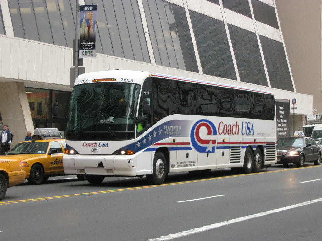 Coach USA Suburban Trails #21059 deadheads past Bryant Park after having dropped off all Line 500 customers.